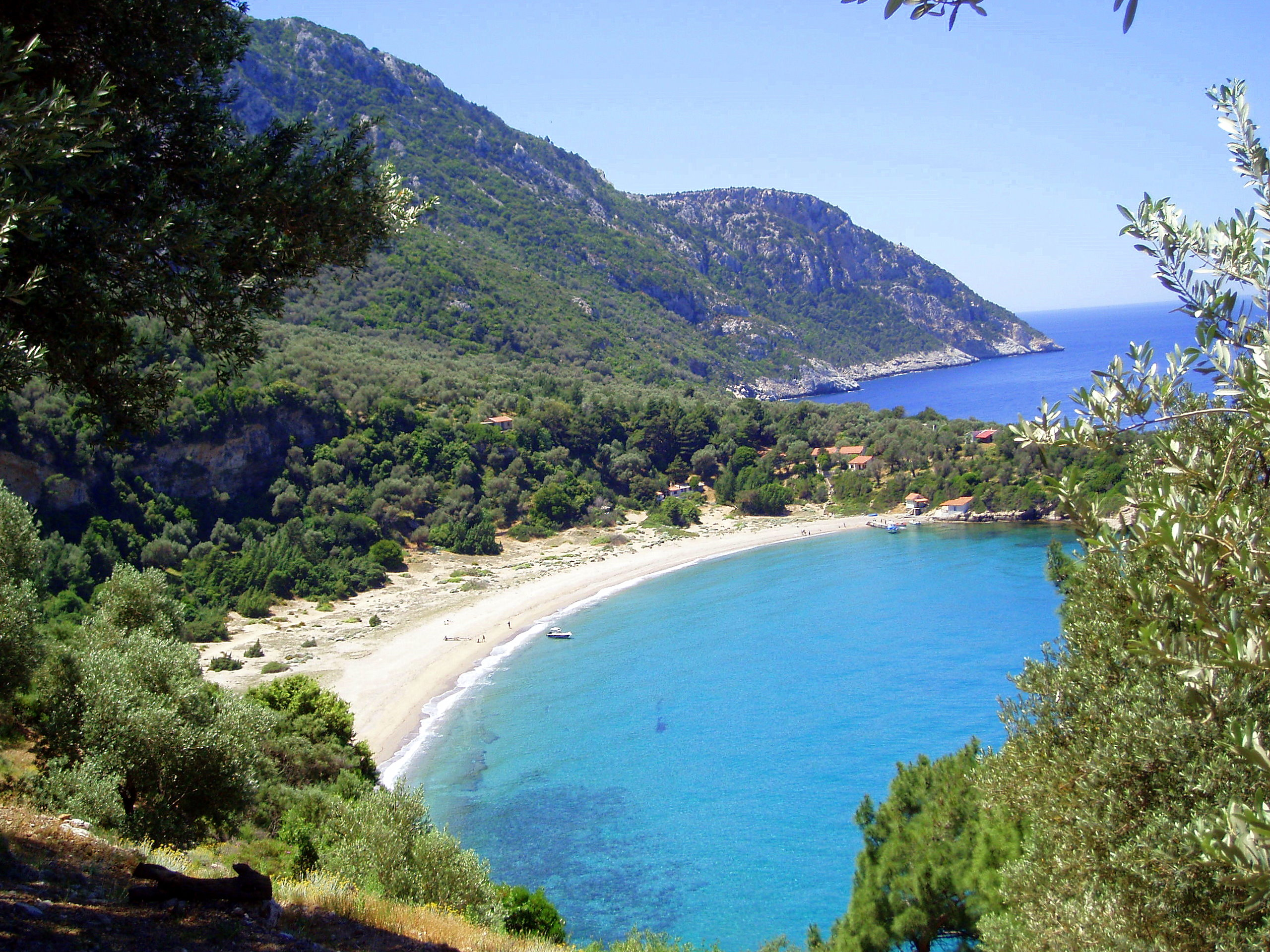 Satan's bay in Northern Samos